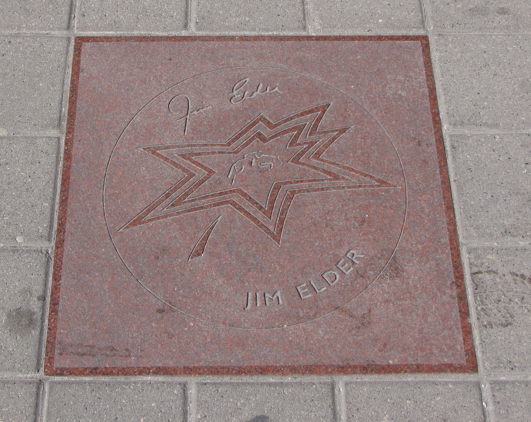 Jim Elder's star on Canada's Walk of Fame